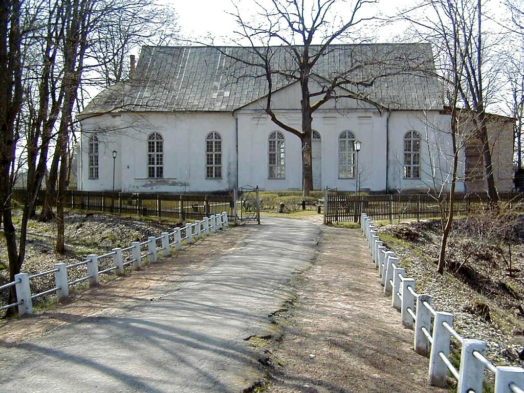 Gulbene Evangelical Lutheran Church